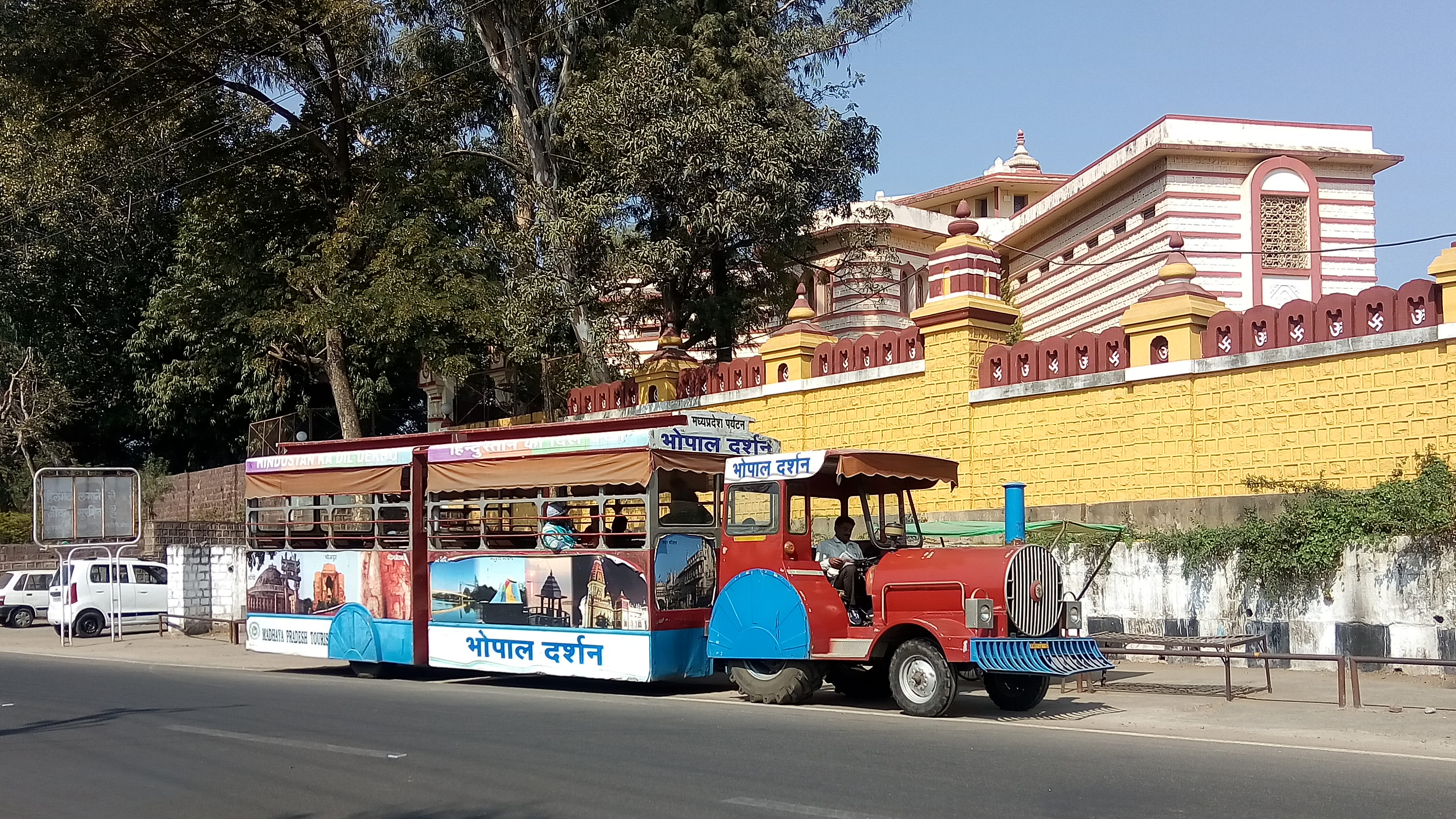 MP Tourism Bhopal Tourist Van near Birla Mandir